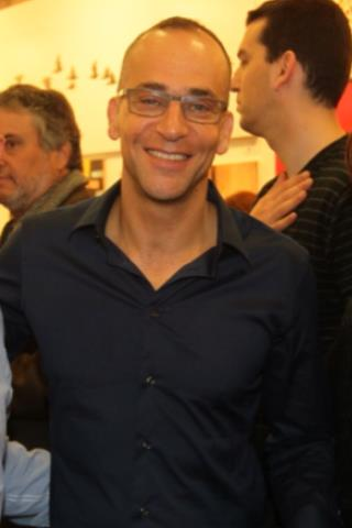 eli cohen